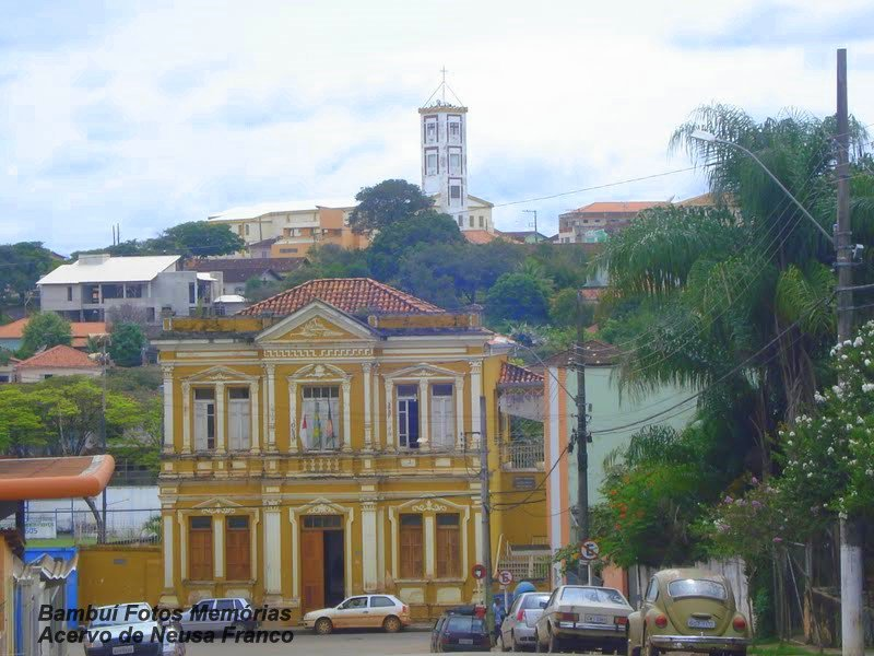 Câmara Municipal de Bambuí-MG